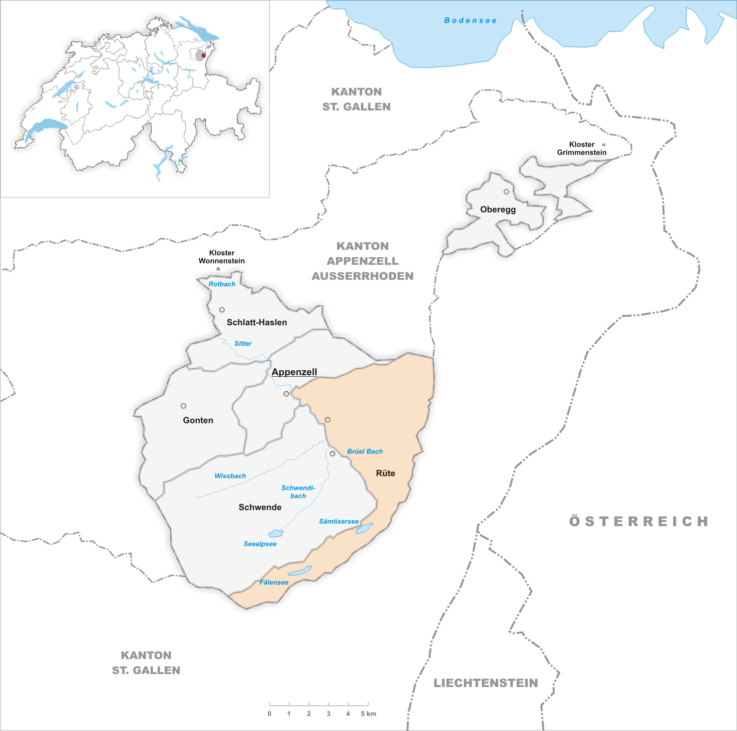 Municipality of Rüte